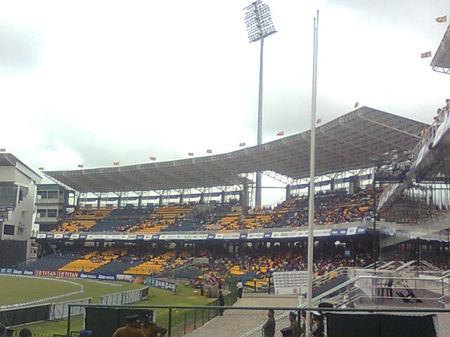 SL v Aus,August 22,2011